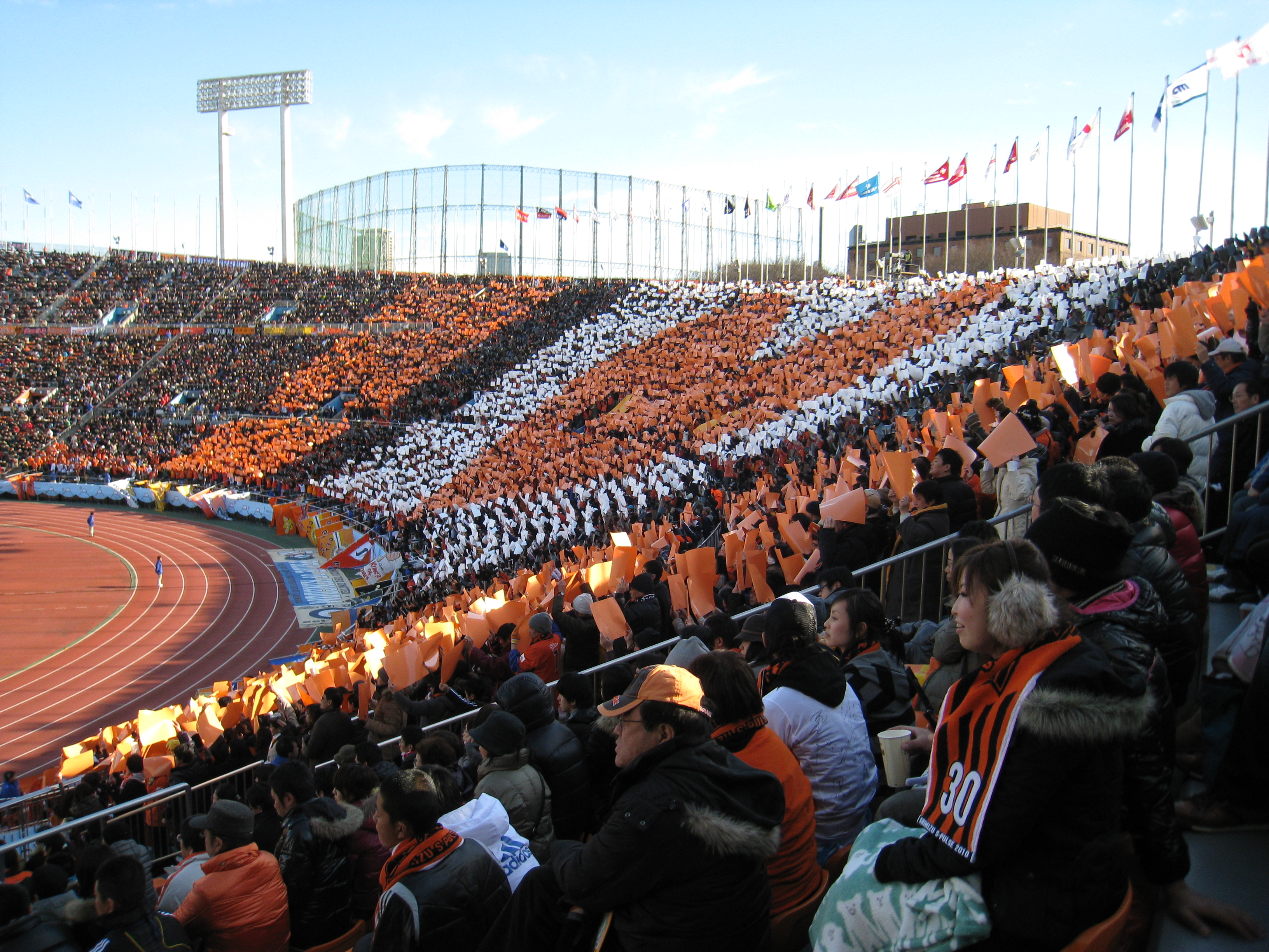 Emperor's Cup Final Shimizu S-Pulse 2011-01-01